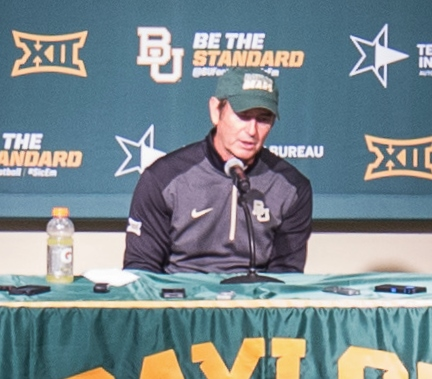 Baylor University football head coach Art Briles speaks at a press conference on the Baylor campus.